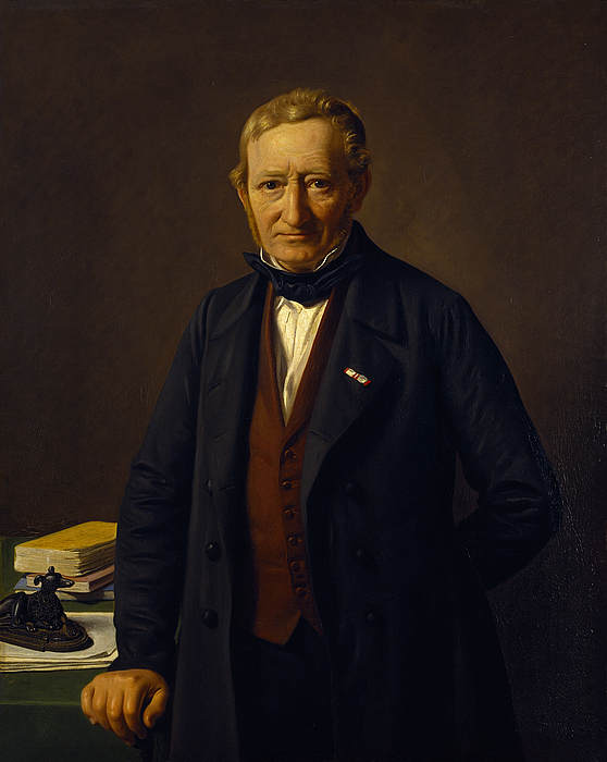 Portrait of Jonas Collin